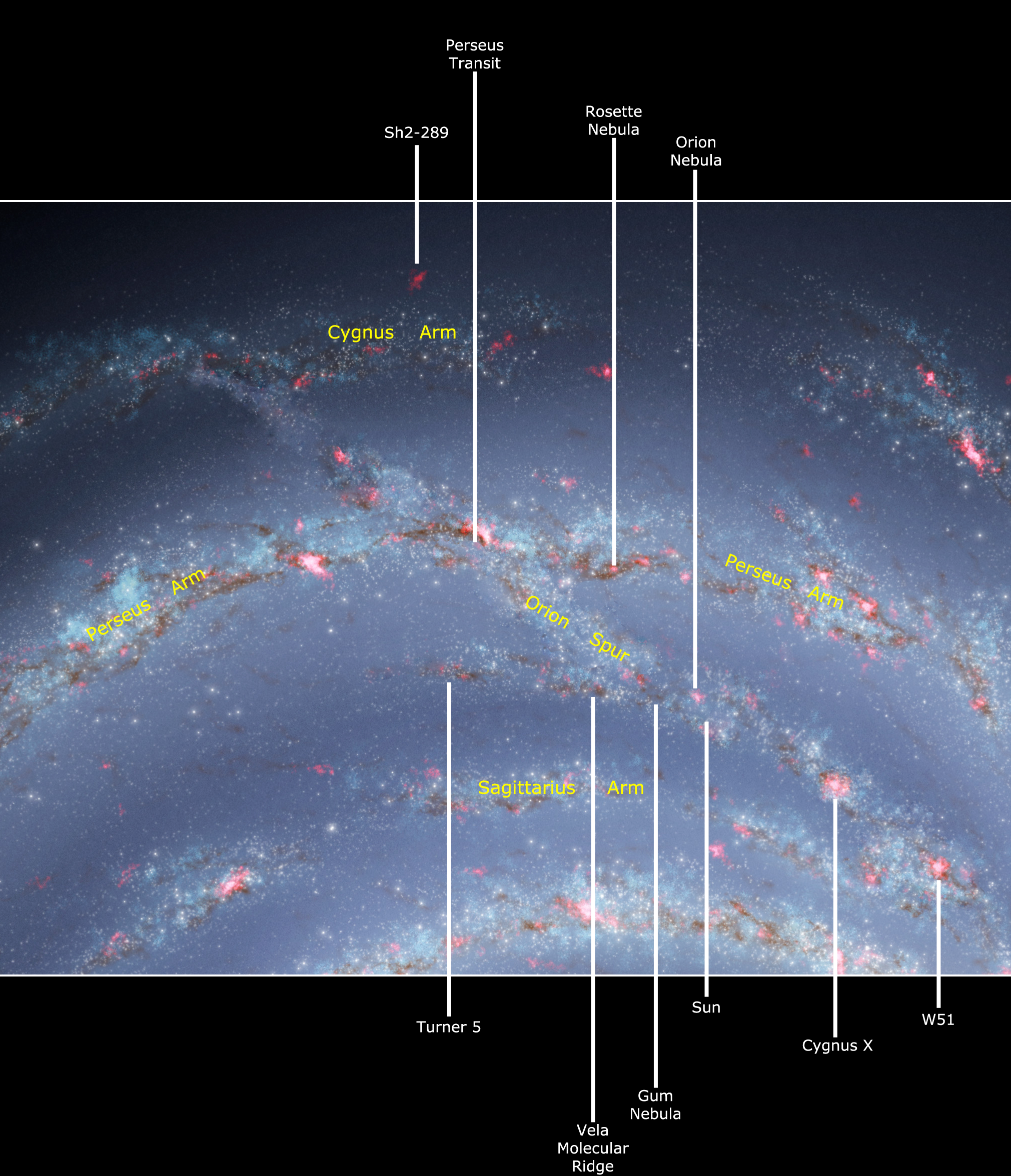 Map of the Orion Spur updated at 2010